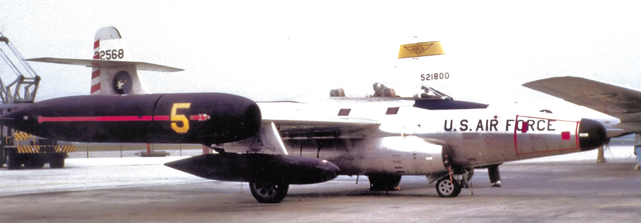 58th Fighter-Interceptor Squadron Northrop F-89D-60-NO Scorpion 53-2568 1955 Stationed at Otis Air Force Base, Massachusetts. Shown at At National Air Show, Philadelphia